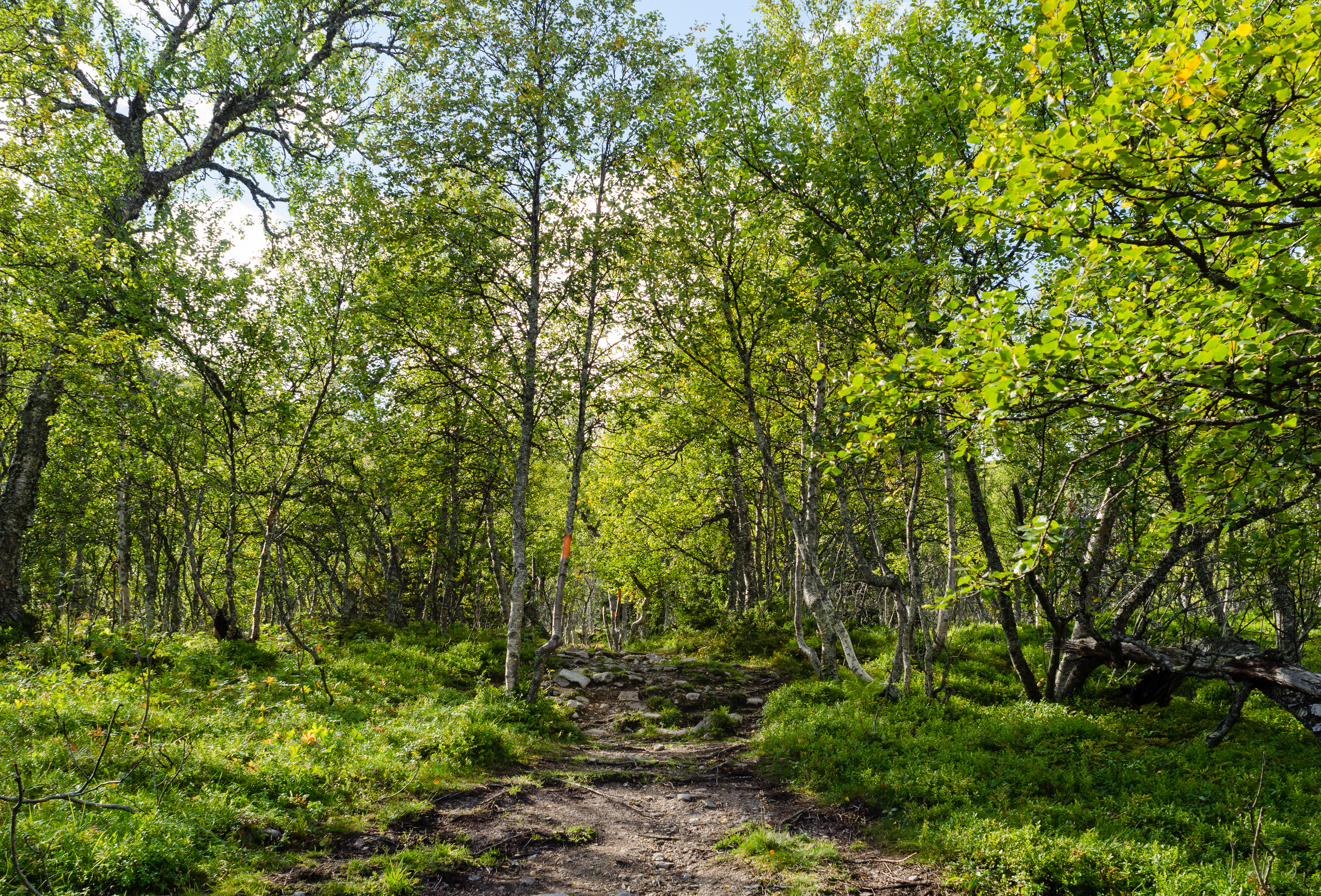 Montane Birch forest in Sonfjället national park. Sonfjället is a national park situated in Härjedalen, in central Sweden. It was established in 1909, making it one of Europe's oldest national parks